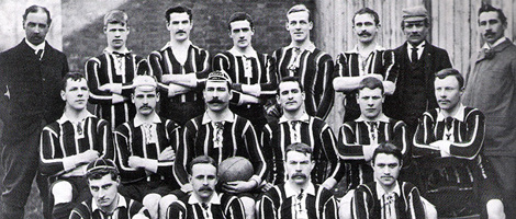 Team photo of English rugby team, Leicester Tigers.